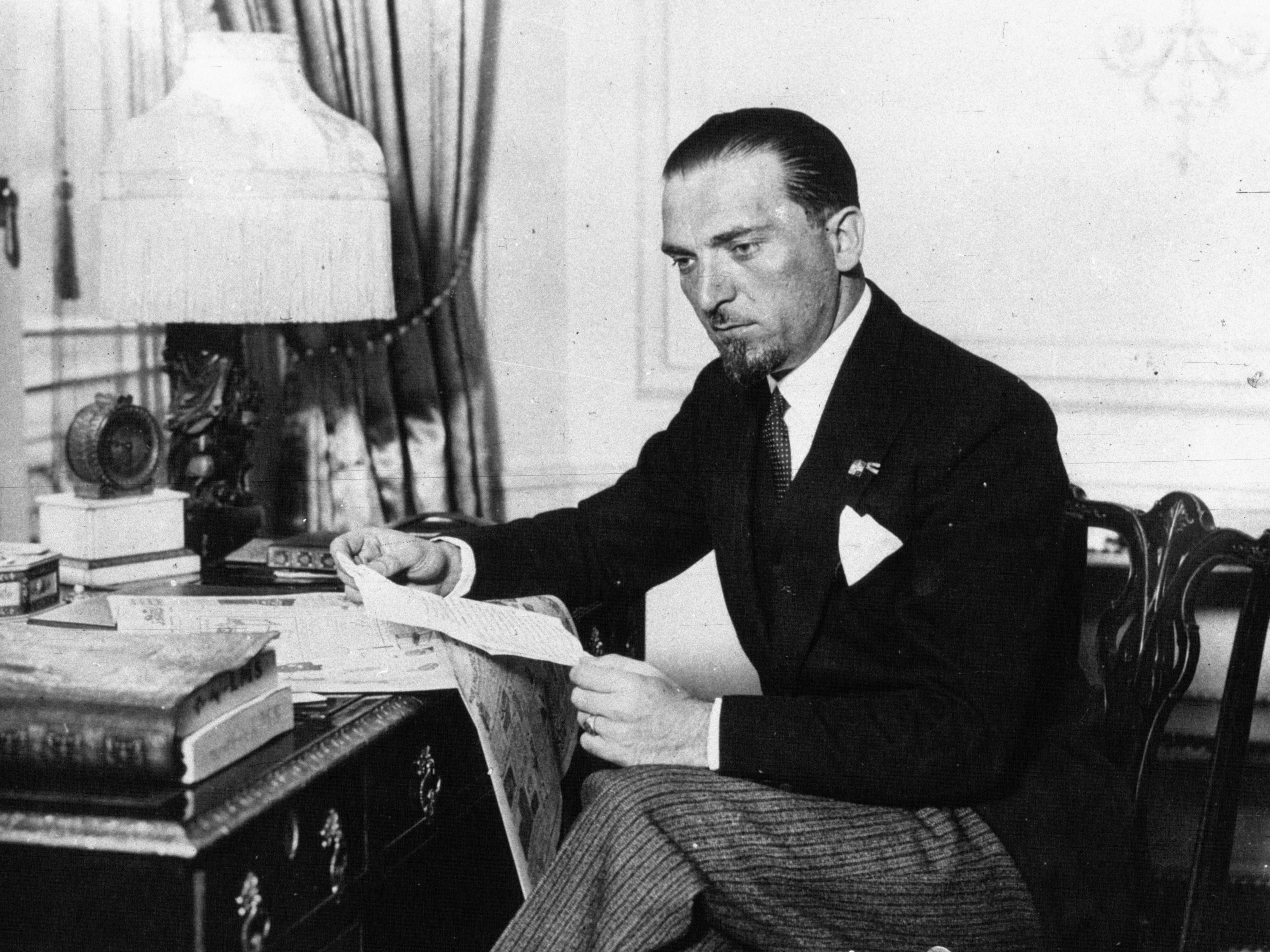 Italian politician Dino Grandi (1895-1988).